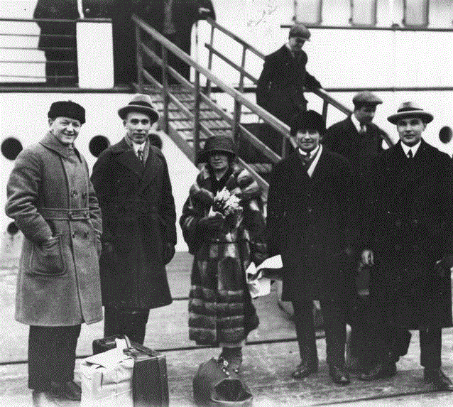 Ville Ritola is coming from the US to Finland for training Paris summer olympics